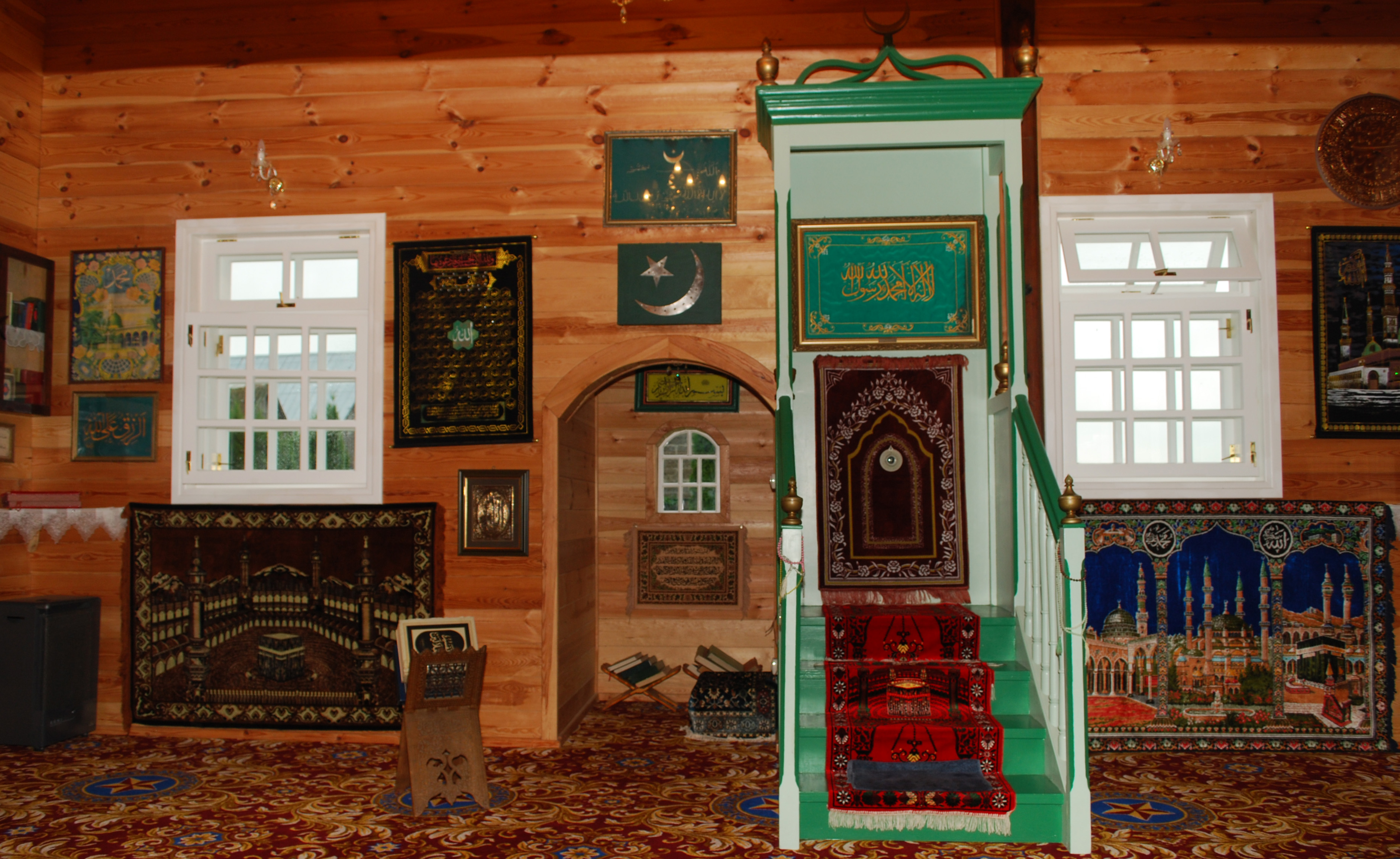 This photo from Podlaskie Voievodeship was taken during Polish Wikiexpedition 2009 set up by Wikimedia Polska Association. The making of this document was supported by Wikimedia Polska. Meczet w Bohonikach - ściana modlitewna